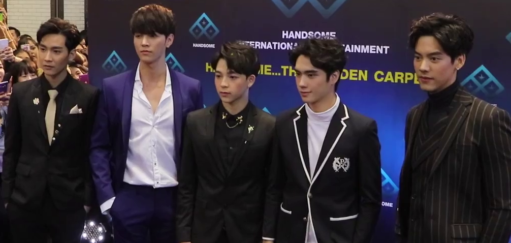 2Moons: The Series cast at Event Handsome Golden Carpet